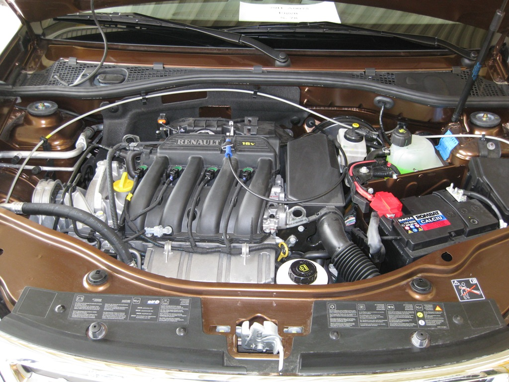 16V-Engine of Dacia Duster